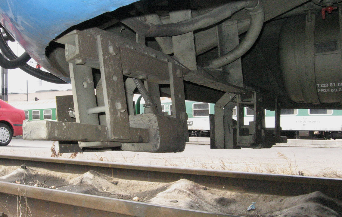 coils of cab signalling LS II used in Czechoslovakia